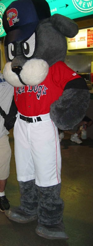 Image was taken by me, during a Sea Dogs game in 2004.